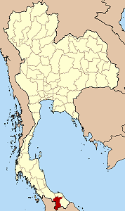 Map of Thailand highlighting Yala province